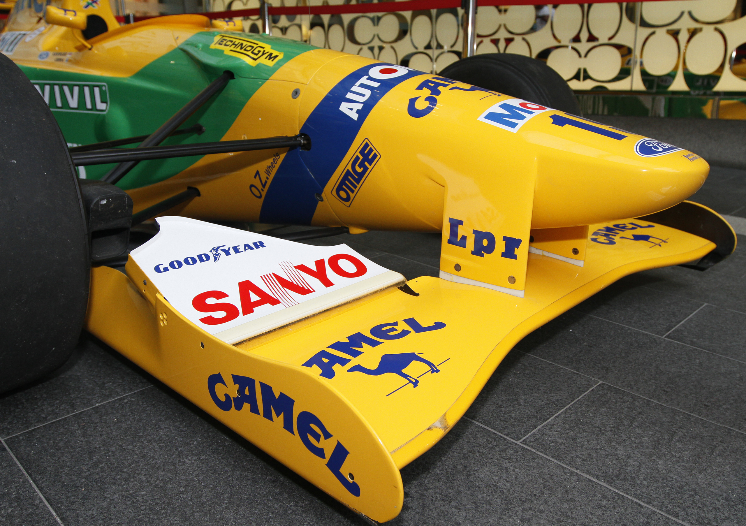 Pavilion Pit Stop 2010: Benetton B192's high nose